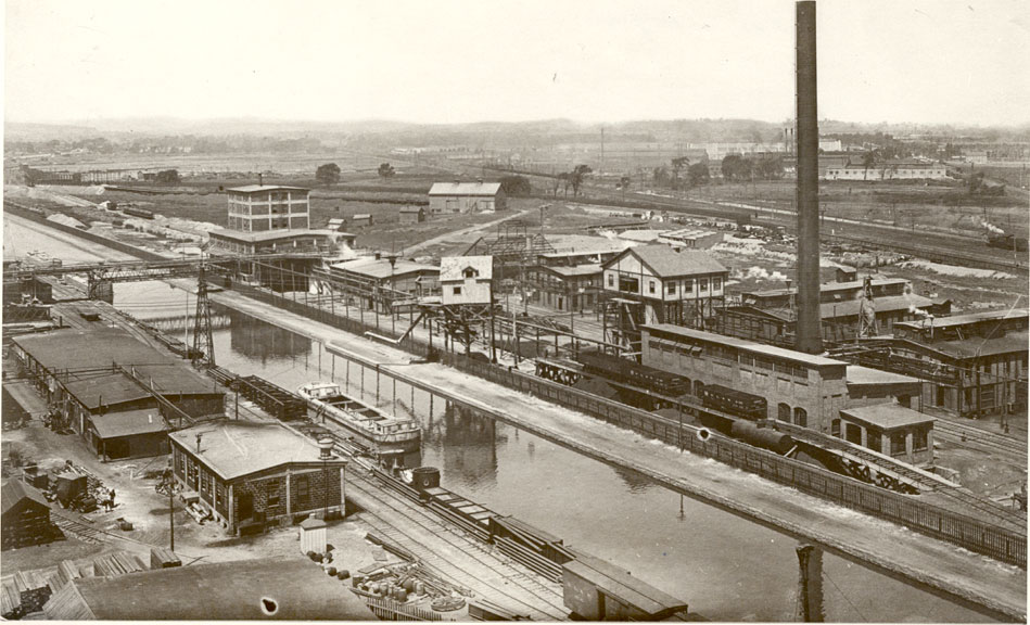 Author unknown. Solvay Public Library, . Photo taken prior to closing of Erie Canal about 1917.